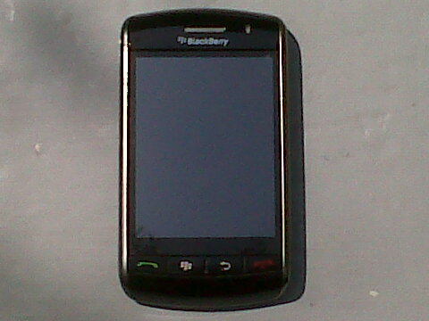 Blackberry Storm